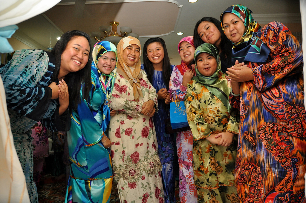 Muslim women in colourful tudungs (the Malay language term for the Islamic headscarf) at an engagement party in Brunei.